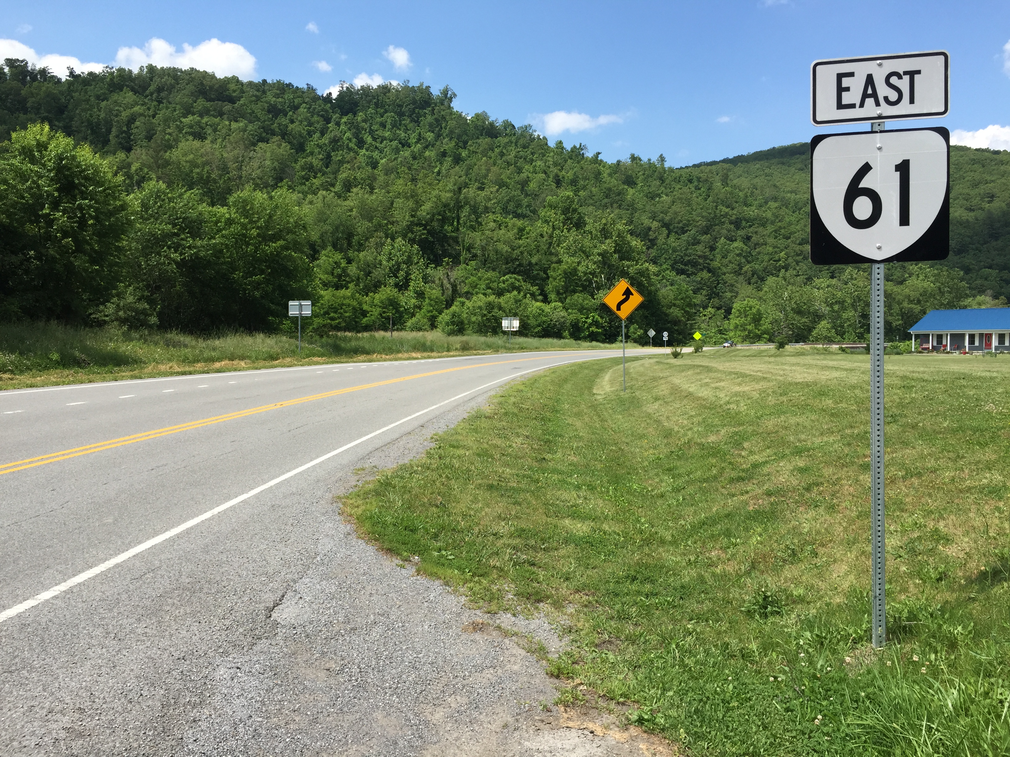 View east along Virginia State Route 61 at U.S. Route 52 (Scenic Highway) in Rocky Gap, Bland County, Virginia